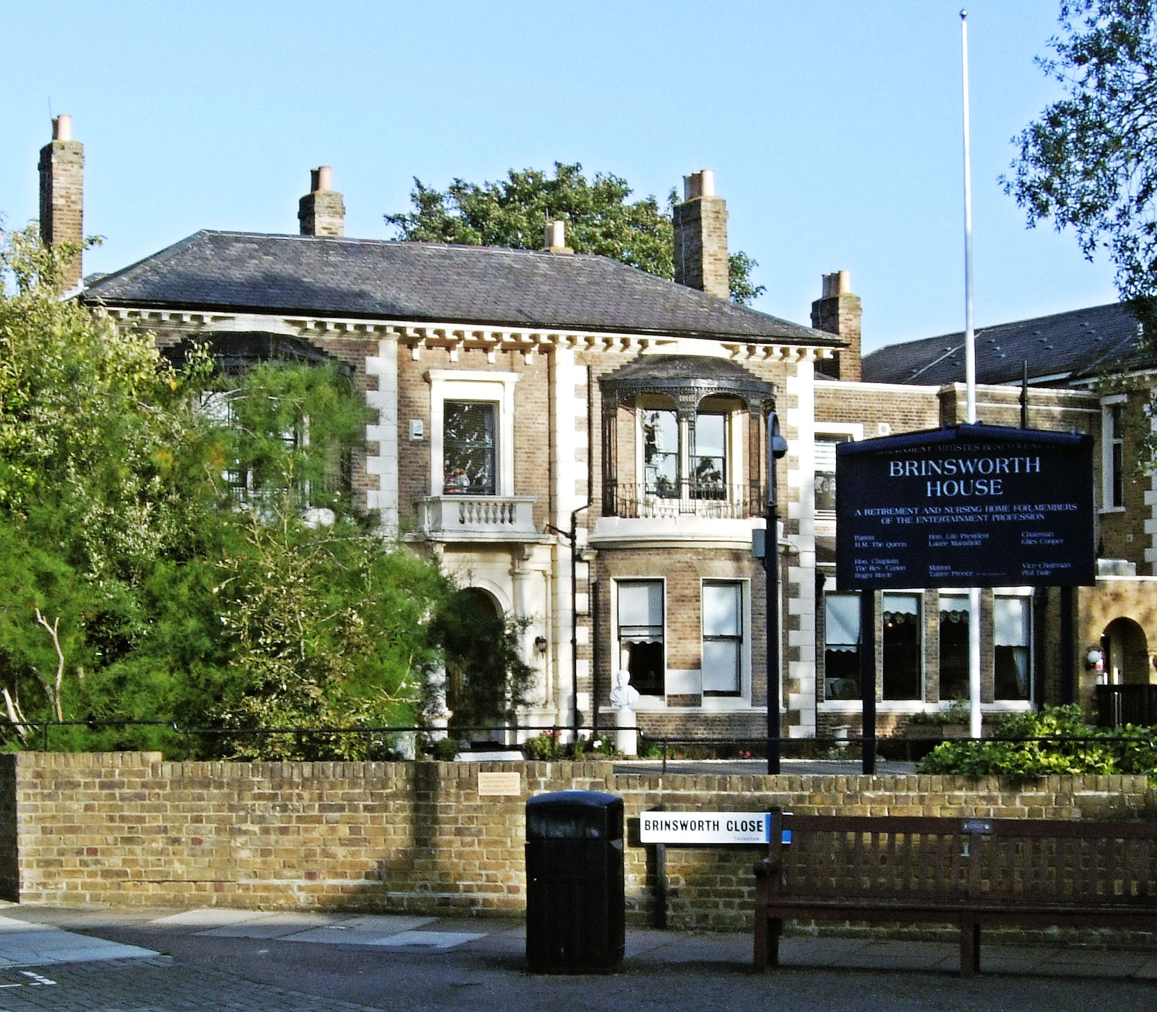 Brinsworth House is a luxury retirement home for famous British artistes connected with theatre or entertainment, at Staines Road in Twickenham, west London, England. The mansion has 36 bedrooms, 6 living rooms, a library, an in-house bar and stage, and has a regular staff of 64 attendants. -Wiki